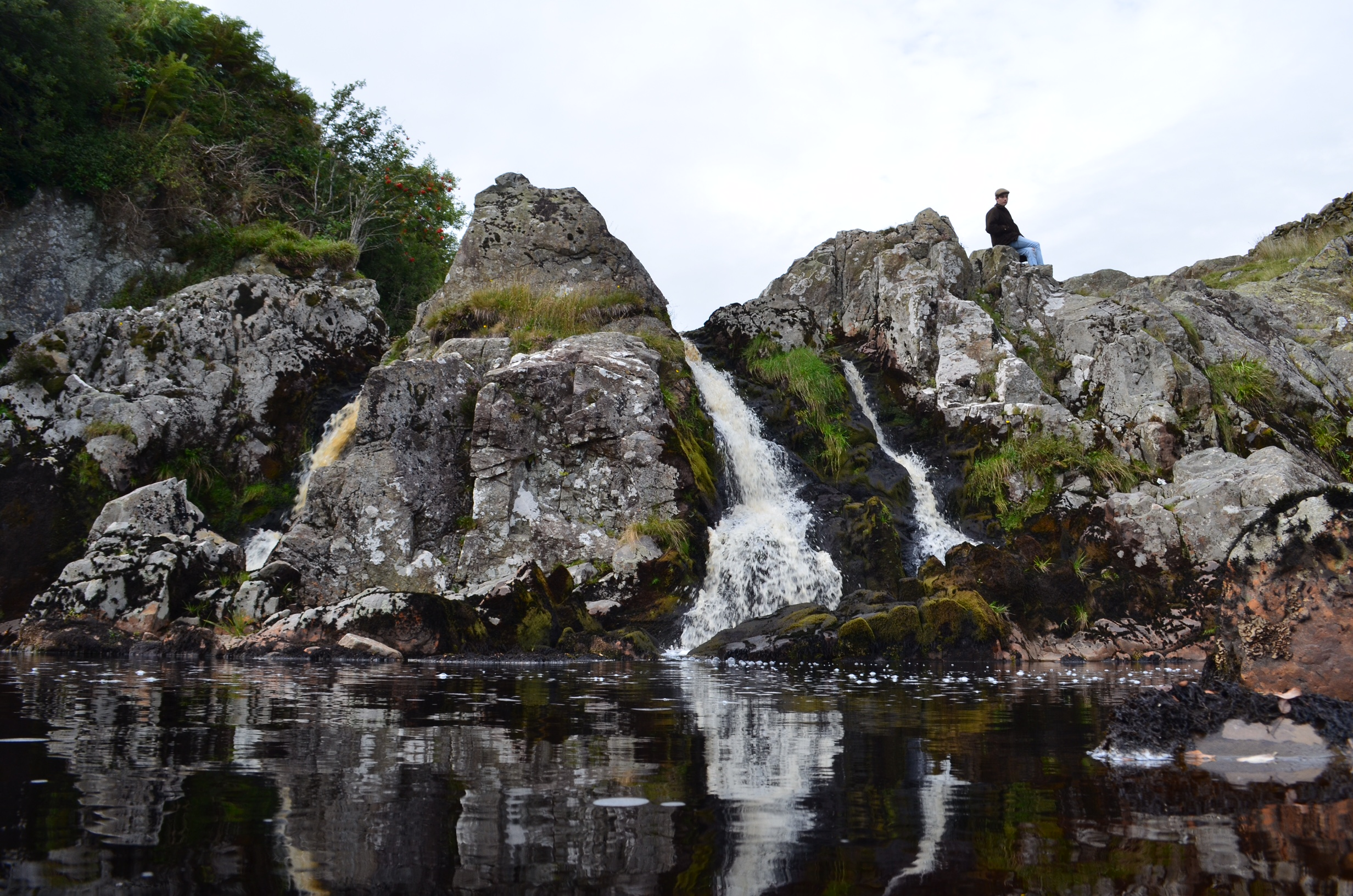 The waterfalls at the southern end of the Lagafater Estate at Dalnigap.